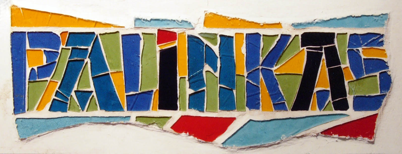 Name plate at the house of the artist Heiner Palinkas in Bremerhaven; irrecoverably removed after the death of the artist when the house was sold.